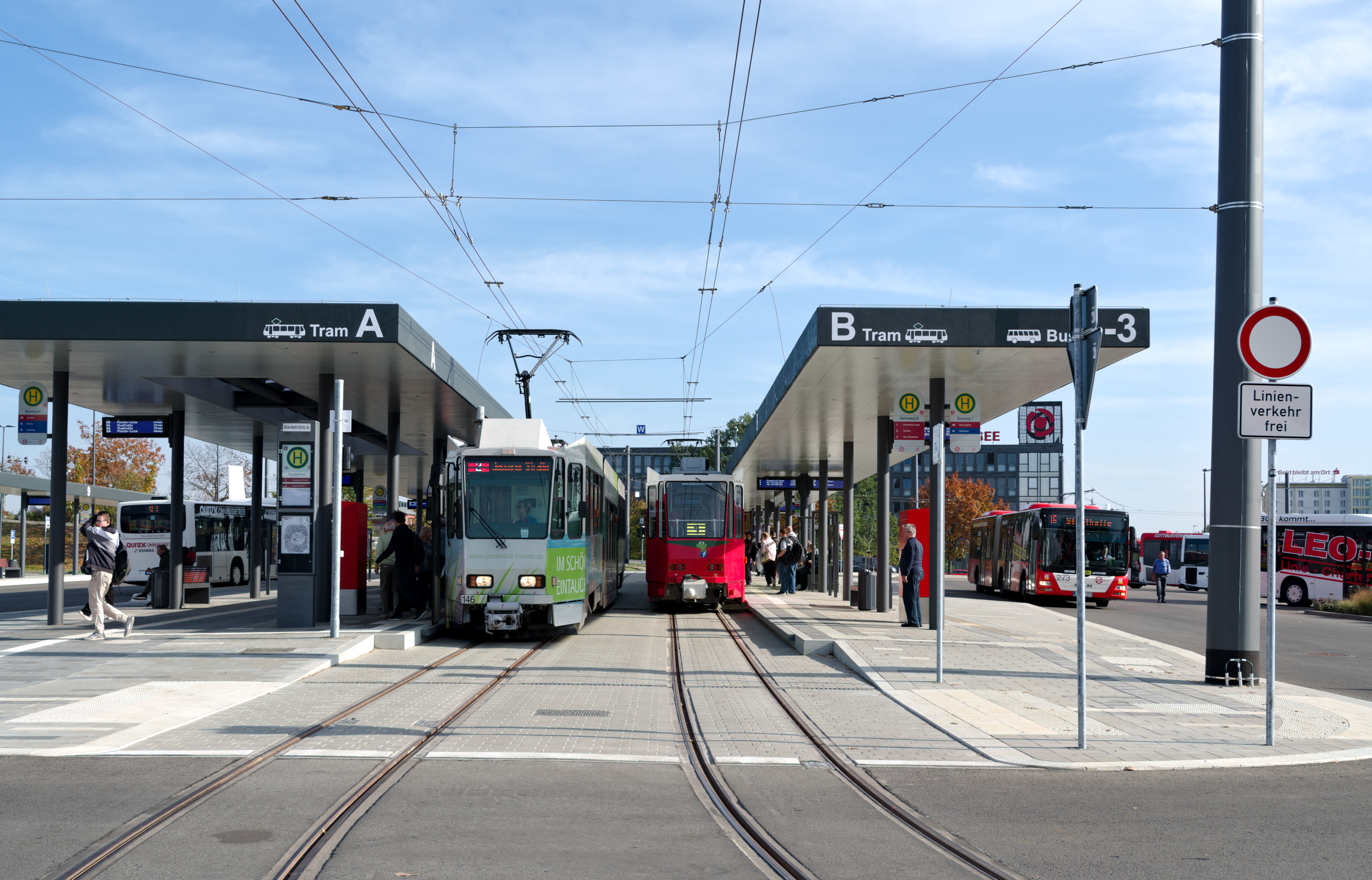 Impressions from the first day of service of the new combined rail/tram/bus interchange at Cottbus main station.